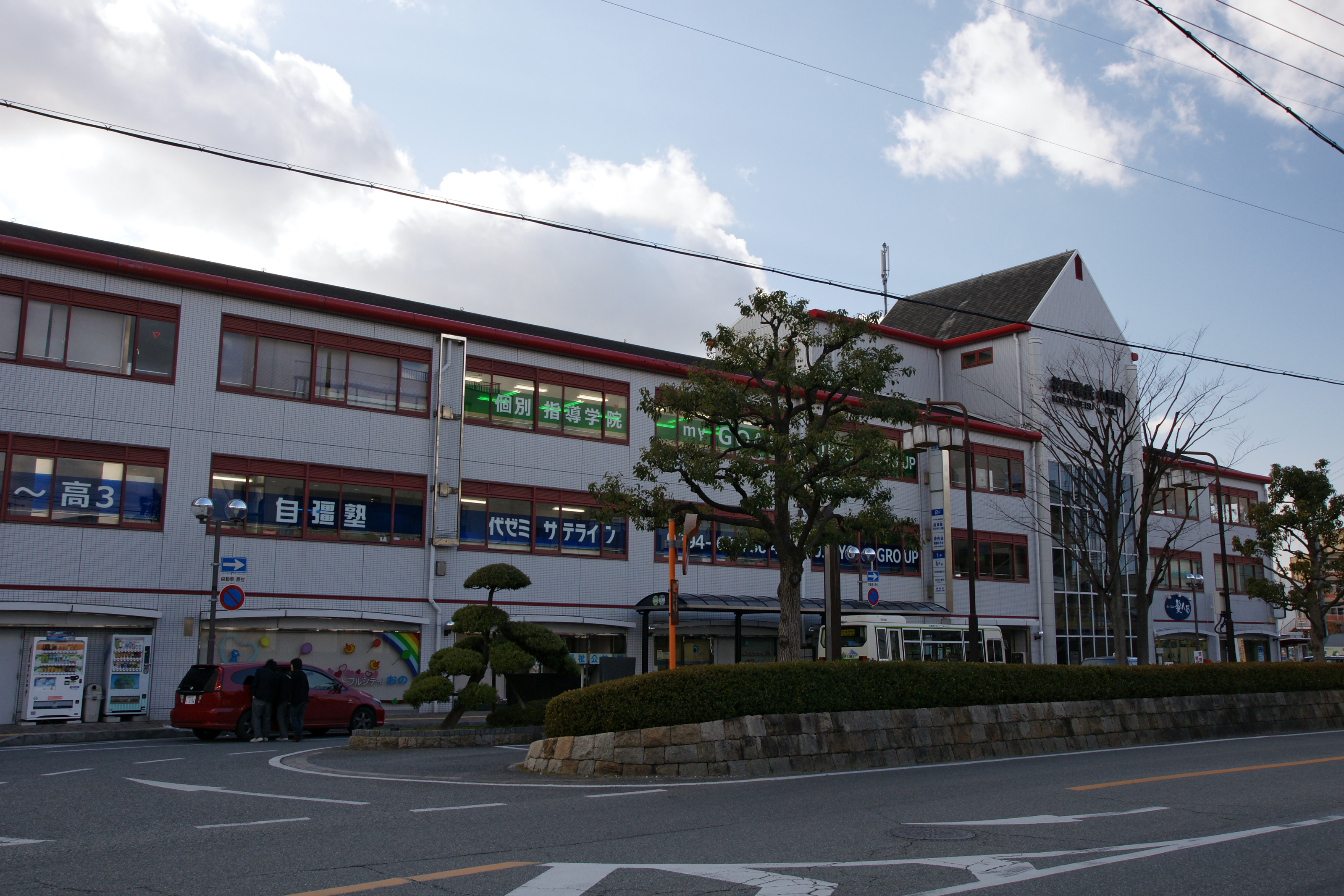 Ono Station in Ono, Hyogo prefecture, Japan.